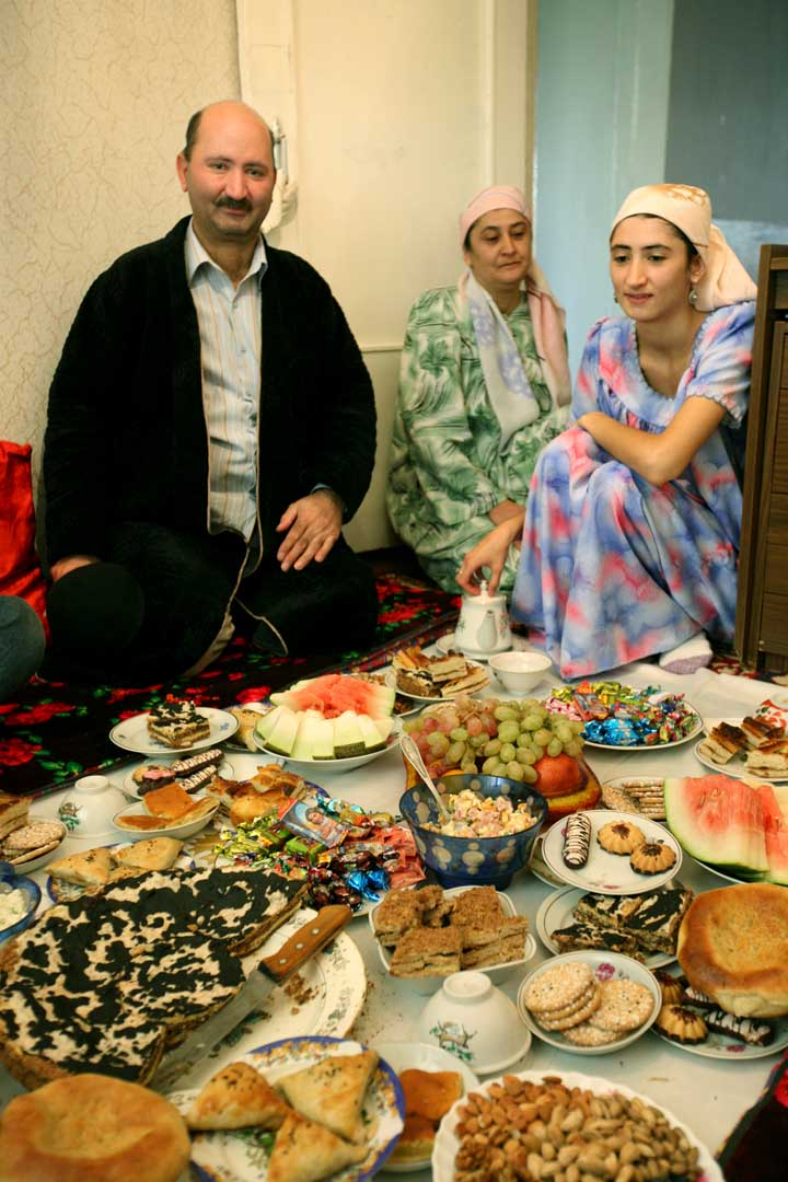 A family celebrating Eid (End of Ramadan) in Tajikistan.